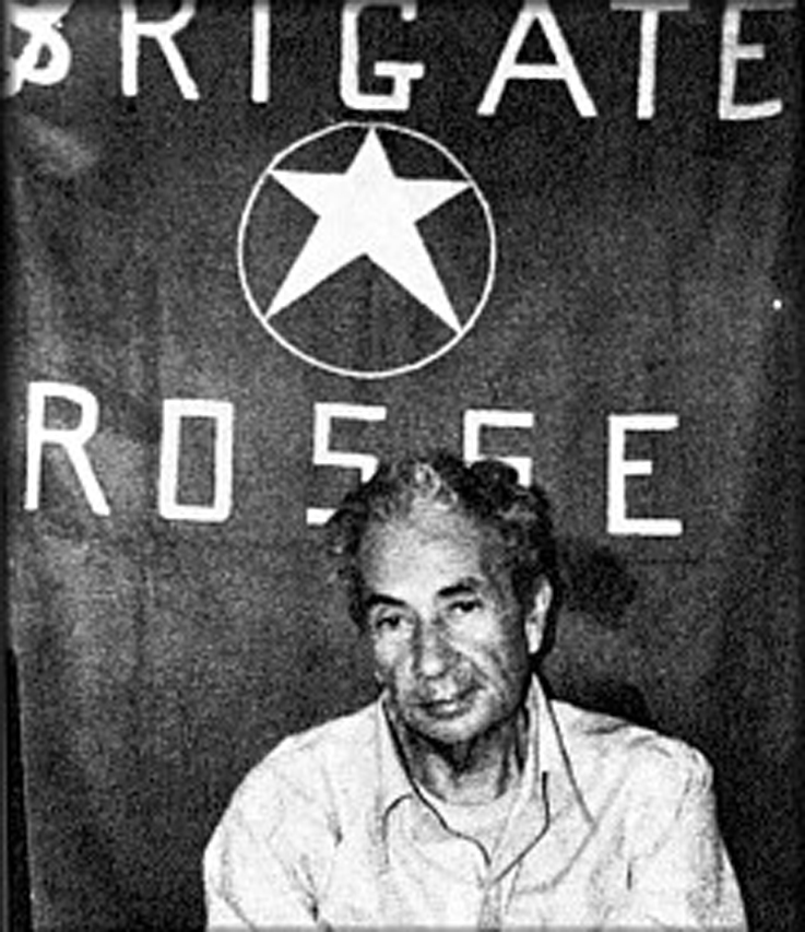 This is a picture of the italian politician Aldo Moro, taken during his detention by Red Brigades.